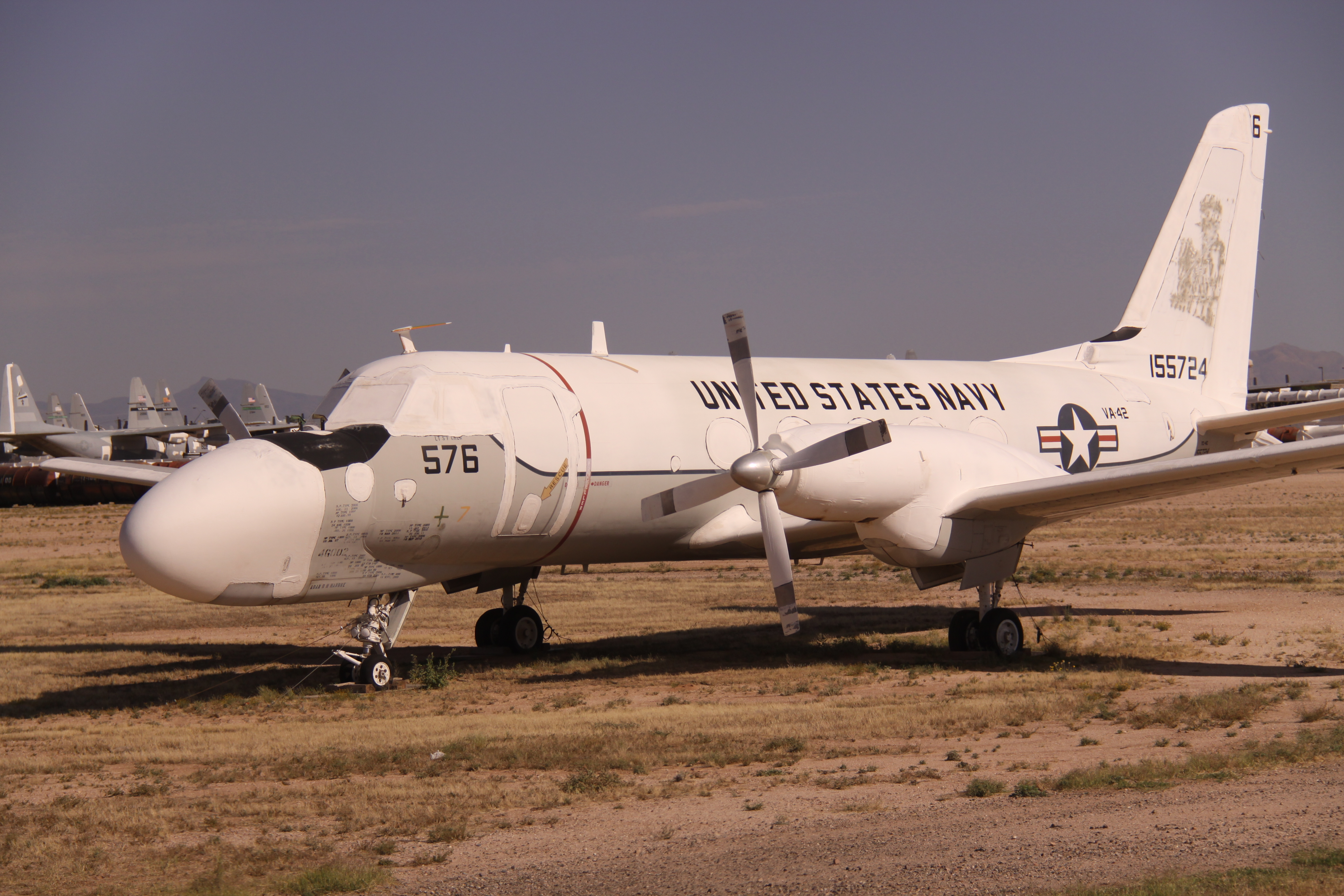 At Davis Monthan AFB